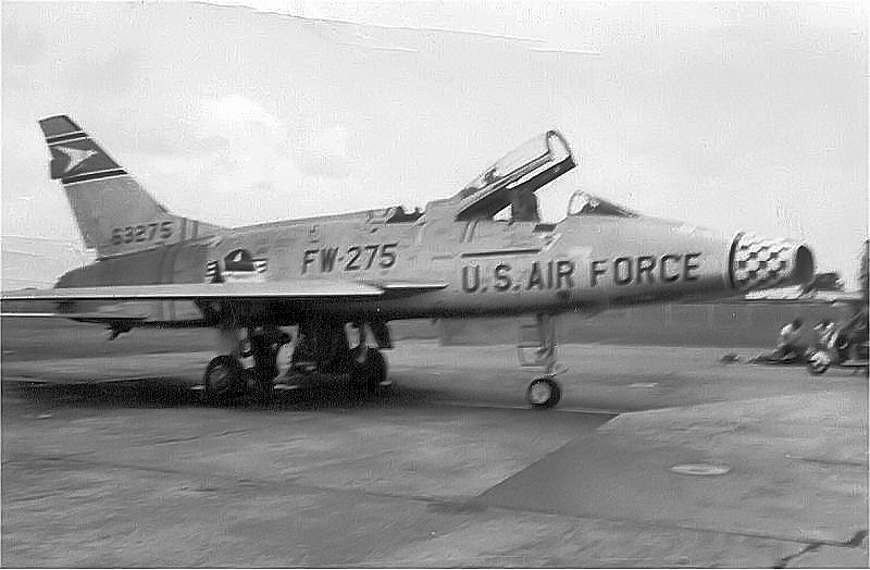 511th Fighter-Interceptor Squadron - North American F-100D-90-NA Super Sabre - 56-3275